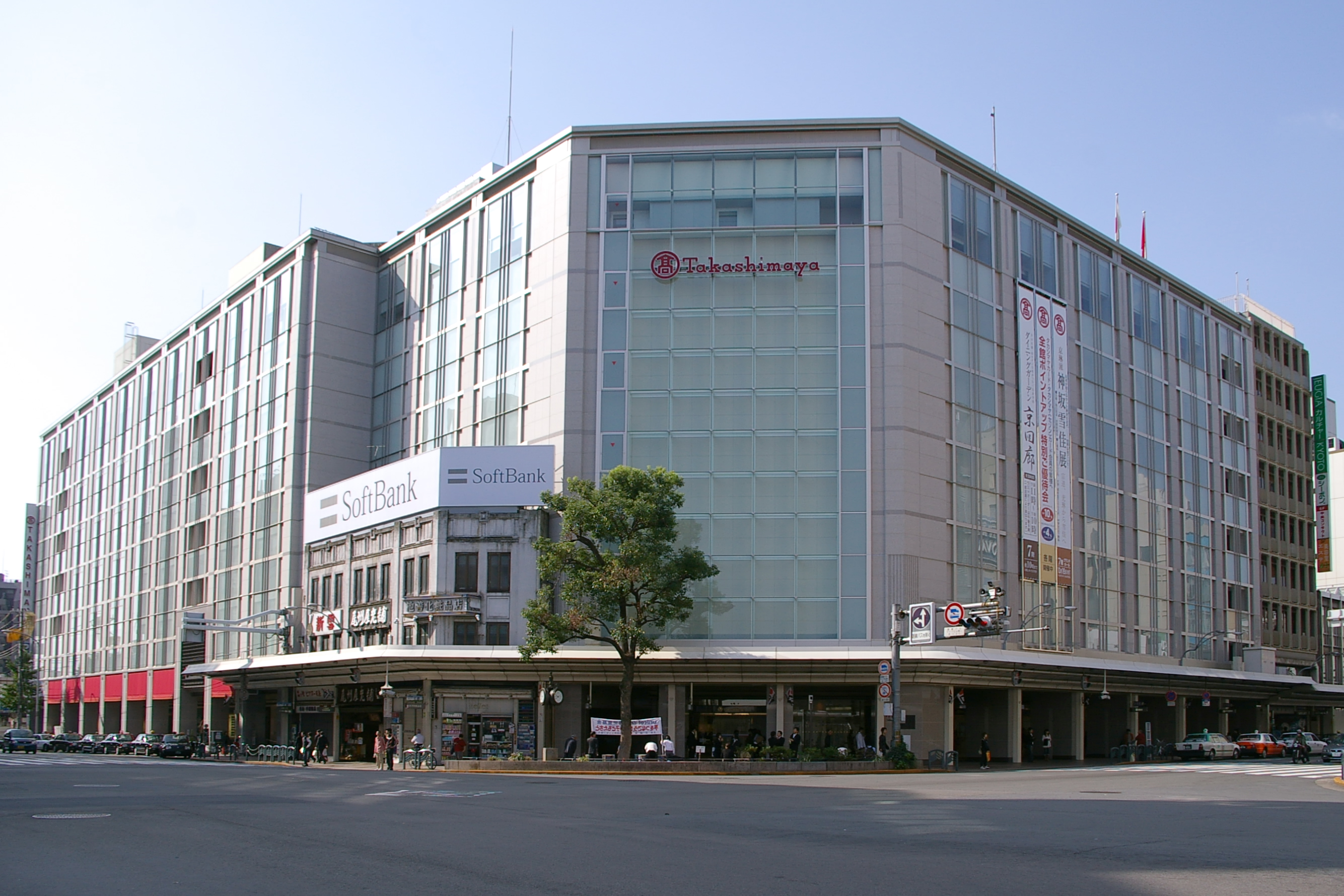 Photograph of Takashimaya Kyoto store in Shimogyo-ku, Kyoto, Kyoto Prefecture, Japan.